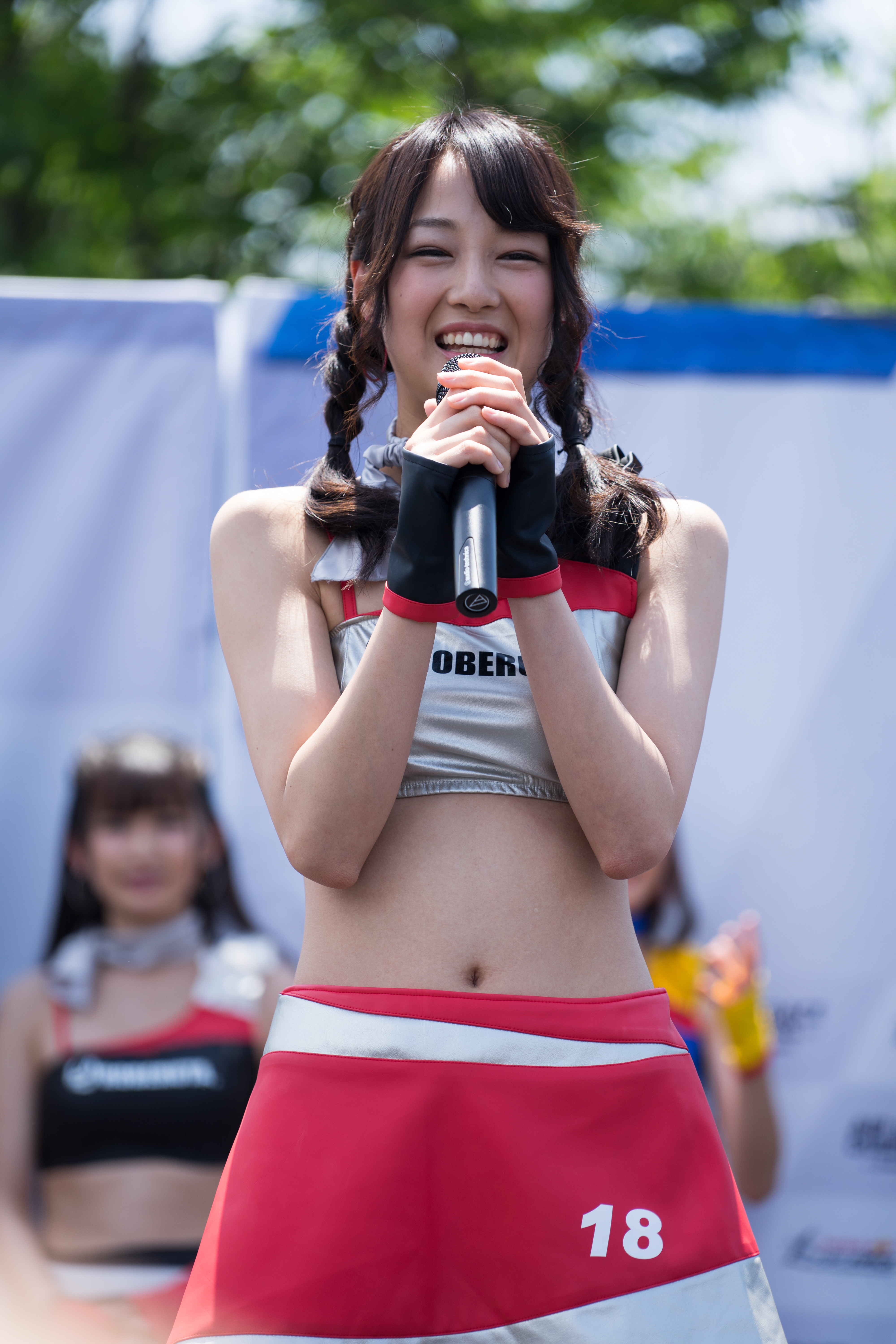 RED BULL AIR RACE CHIBA 2017-262.jpg